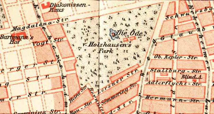 Frankfurt city map, 1893: The Holzhausen family, a centuries-old dynasty of upper-class citizens, owned a small castle as their rural mansion north of old Frankfurt. In the 1890s, the castle park was reached by the rapidly growing city.